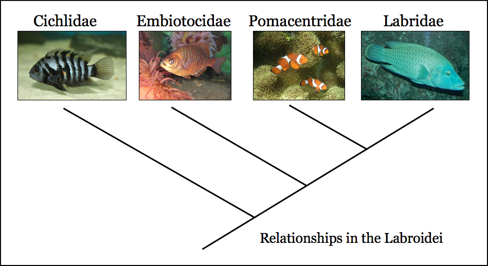 Labroid interrelationships (after Stiassny & Jensen, 1987) Uploaded/Created by Dr. David Midgley See: Stiassny MLJ, Jensen JS (1987) Labroid intrarelationships revisited: morphological complexity, key innovations, and the study of comparative diversity. Bull. Mus. comp. Zool. Harv. 151: 269-319. for detailed discussion of the topic. Composite image comprised of: thumb|left|100px|Labridae example thumb|left|100px|Cichlidae example thumb|left|100px|Embiotocidae example thumb|left|100px|Pomacentridae example Category:Perciformes images Category:Cichlid images Category:Pomacentrid images